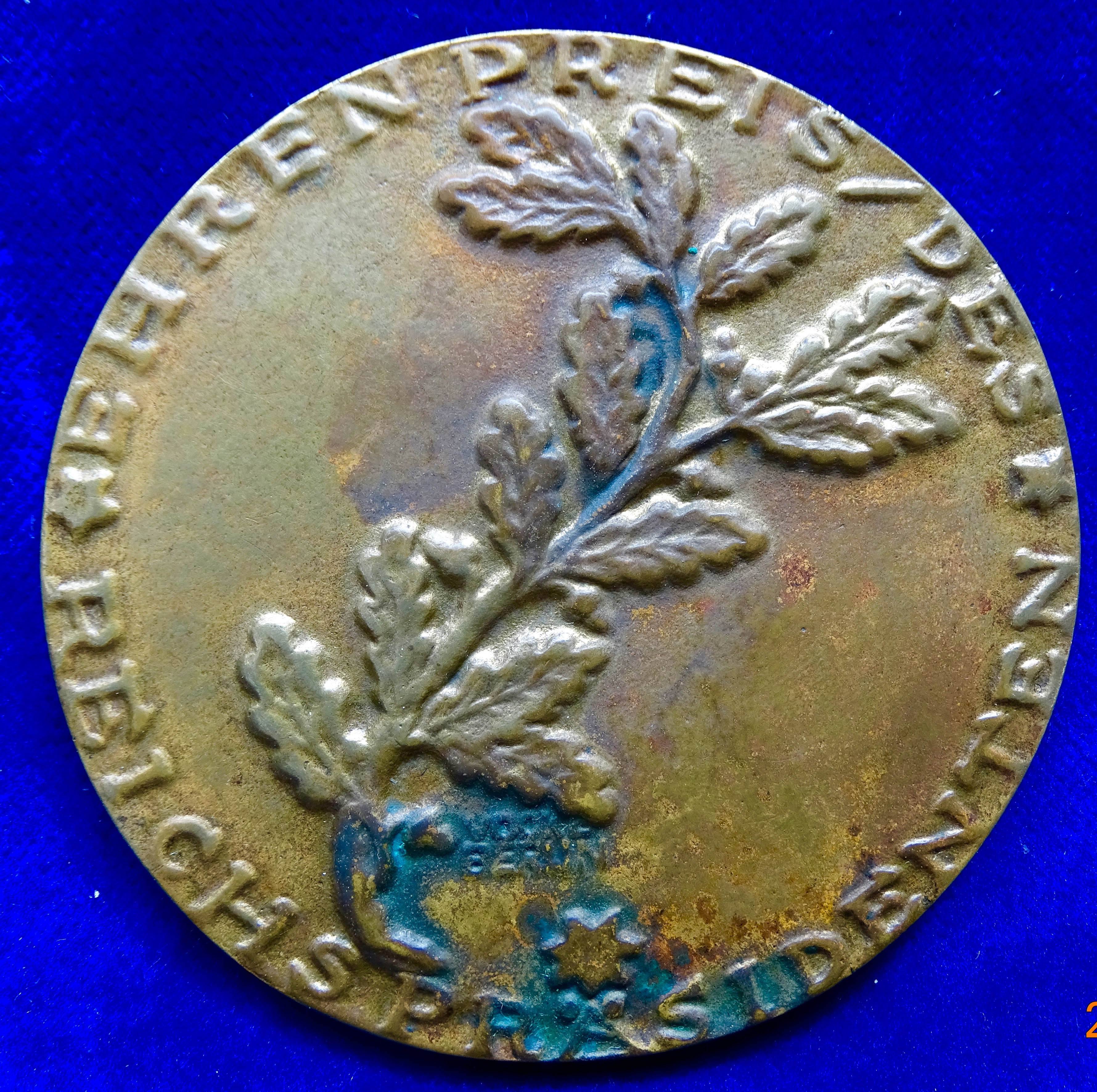 Germany Award Medal 1929 (ND) Verfassungstag. Commemorating the 10th Anniversary of the Weimar Constitution. Bronze medallion, d. = 69 mm The German Eagle l. looking back, the radiating sun in the background. 1 line in exergue: "VERFASSUNGSTAG" / Surrounding an oak branch: "* EHRENPREIS / DES * REICHSPRÄSIDENTEN *". Medallist: (Alfred) Vocke Berlin, 1886 Breslau - 1944 Breslau. Condition: EXTREMELY FINE, patina spots on the reverse.